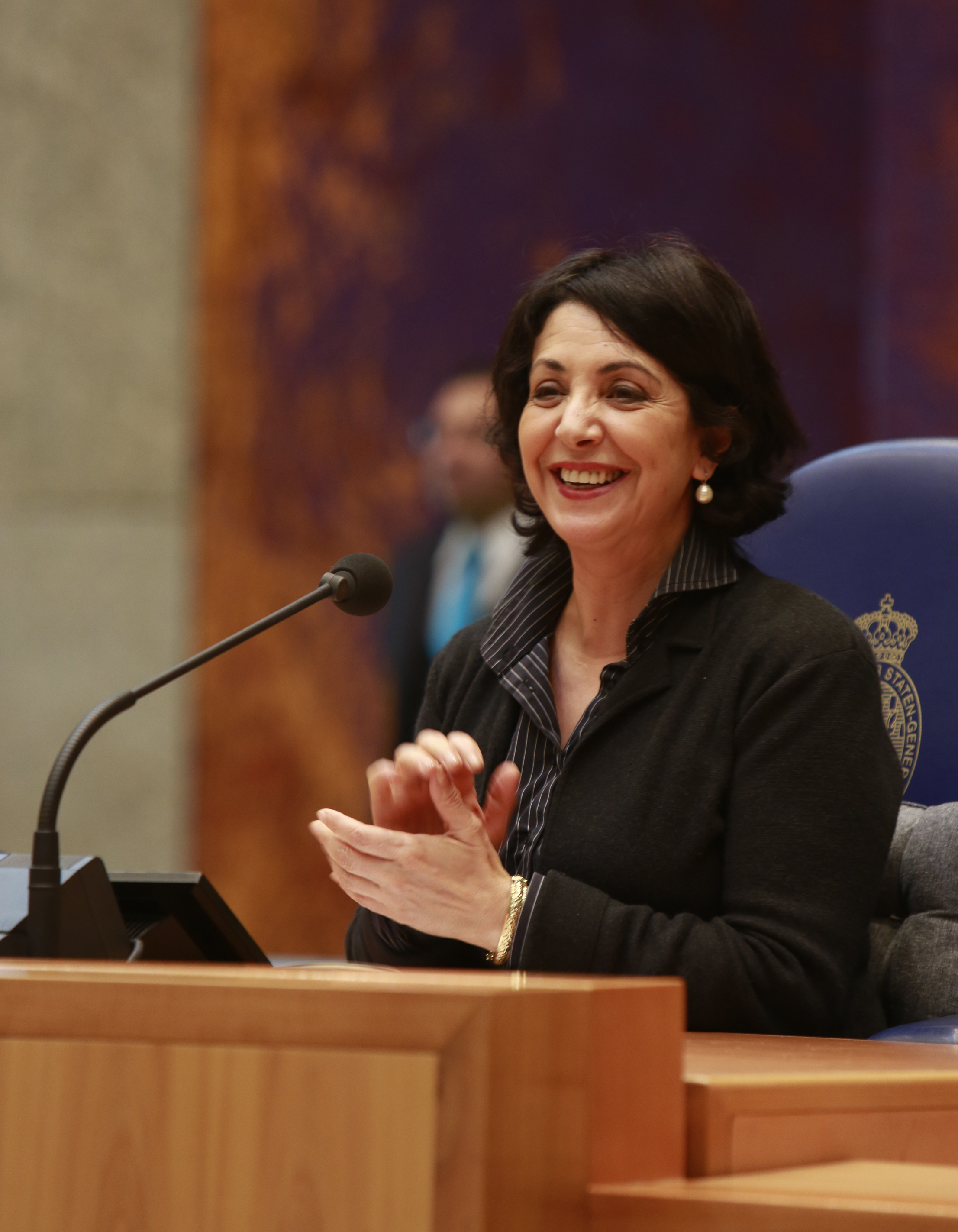 Khadija Arib at the 2015 new members' day of her party